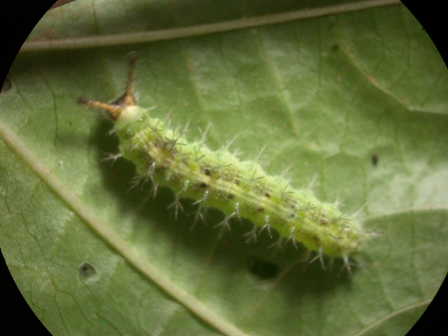 Ariadne merione Common Castor butterfly caterpillar